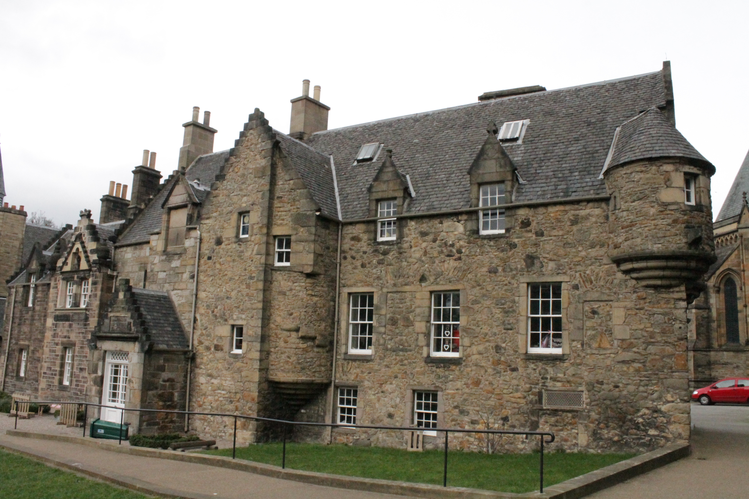 Easter Coates House, Edinburgh